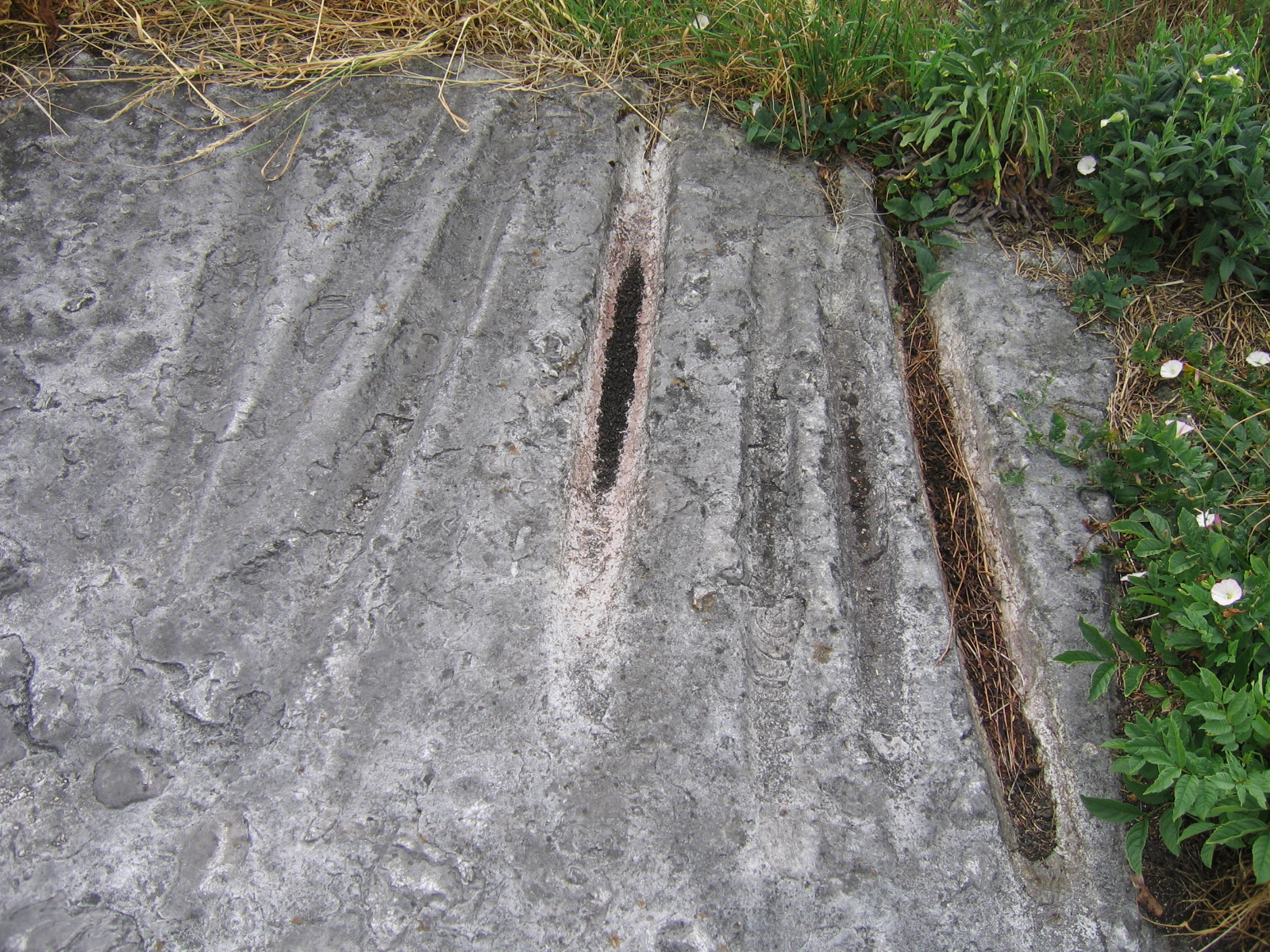 Grooves from Gotland